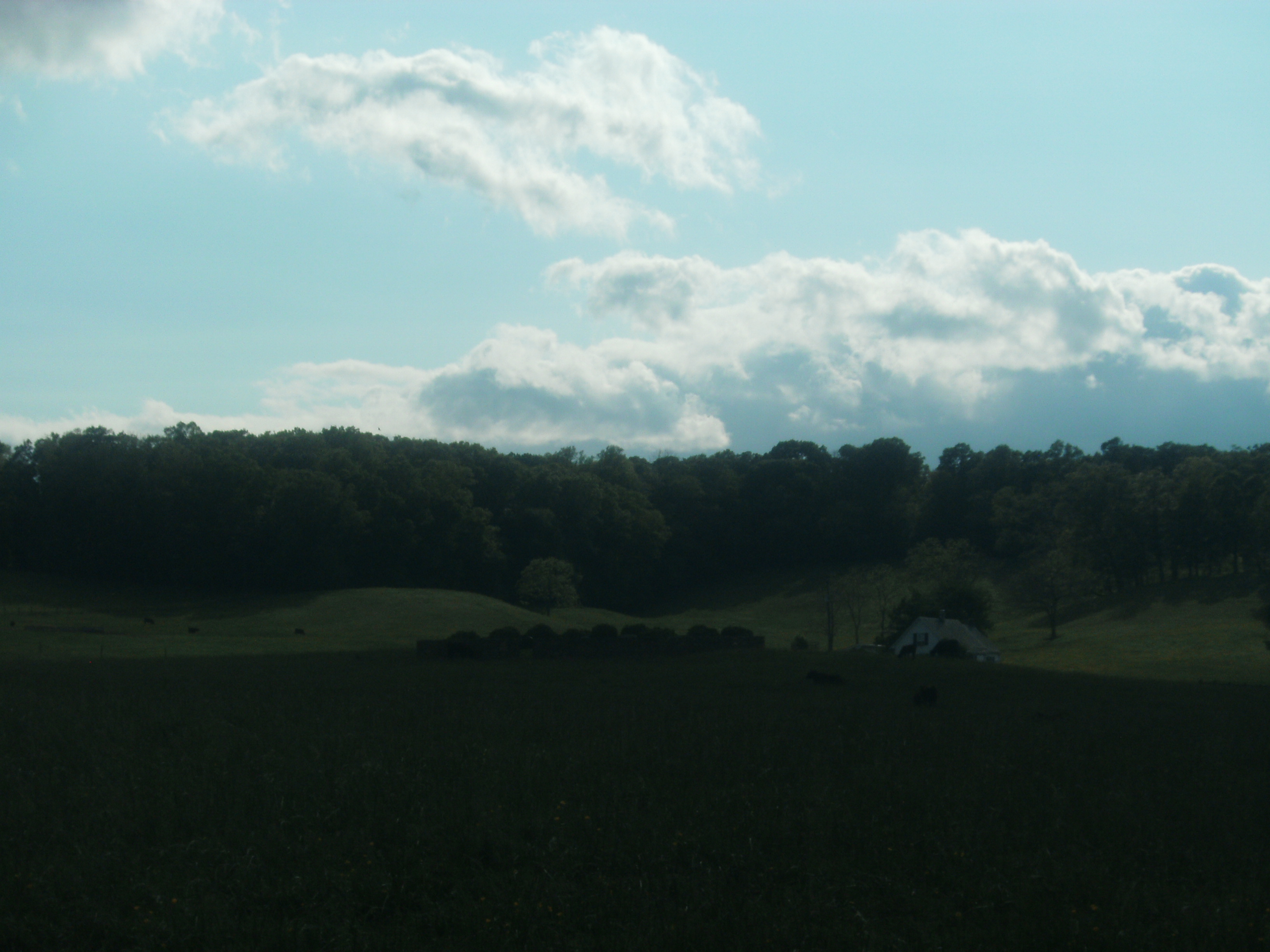 Taken by me in May, 2016 GEDSC DIGITAL CAMERA